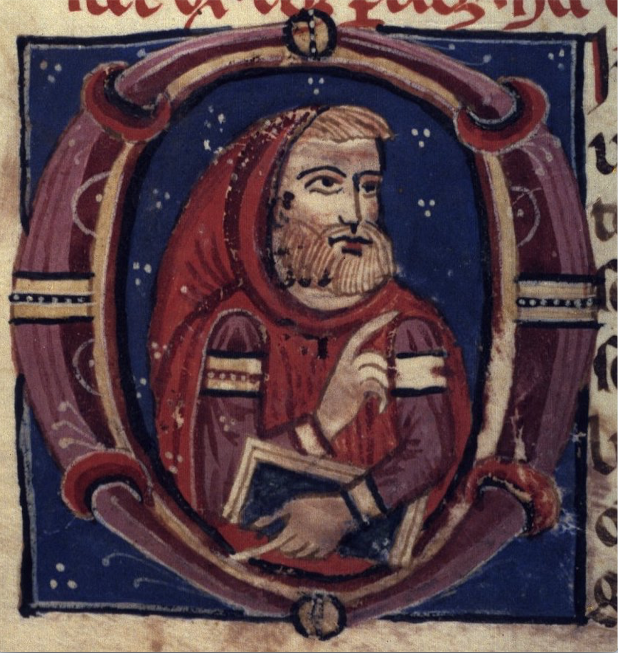 Michael Scot in Bodleian " De physionomiae", MS. Canon. Misc. 555, fol. 059r